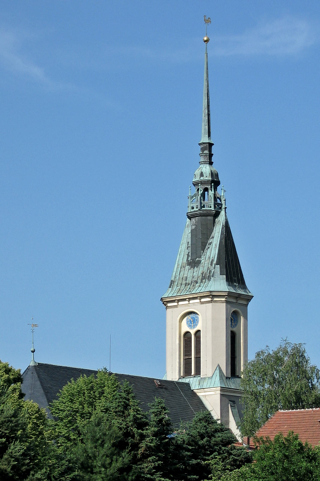 Church in Großpostwitz in the district of Bautzen in Saxony, Germany.